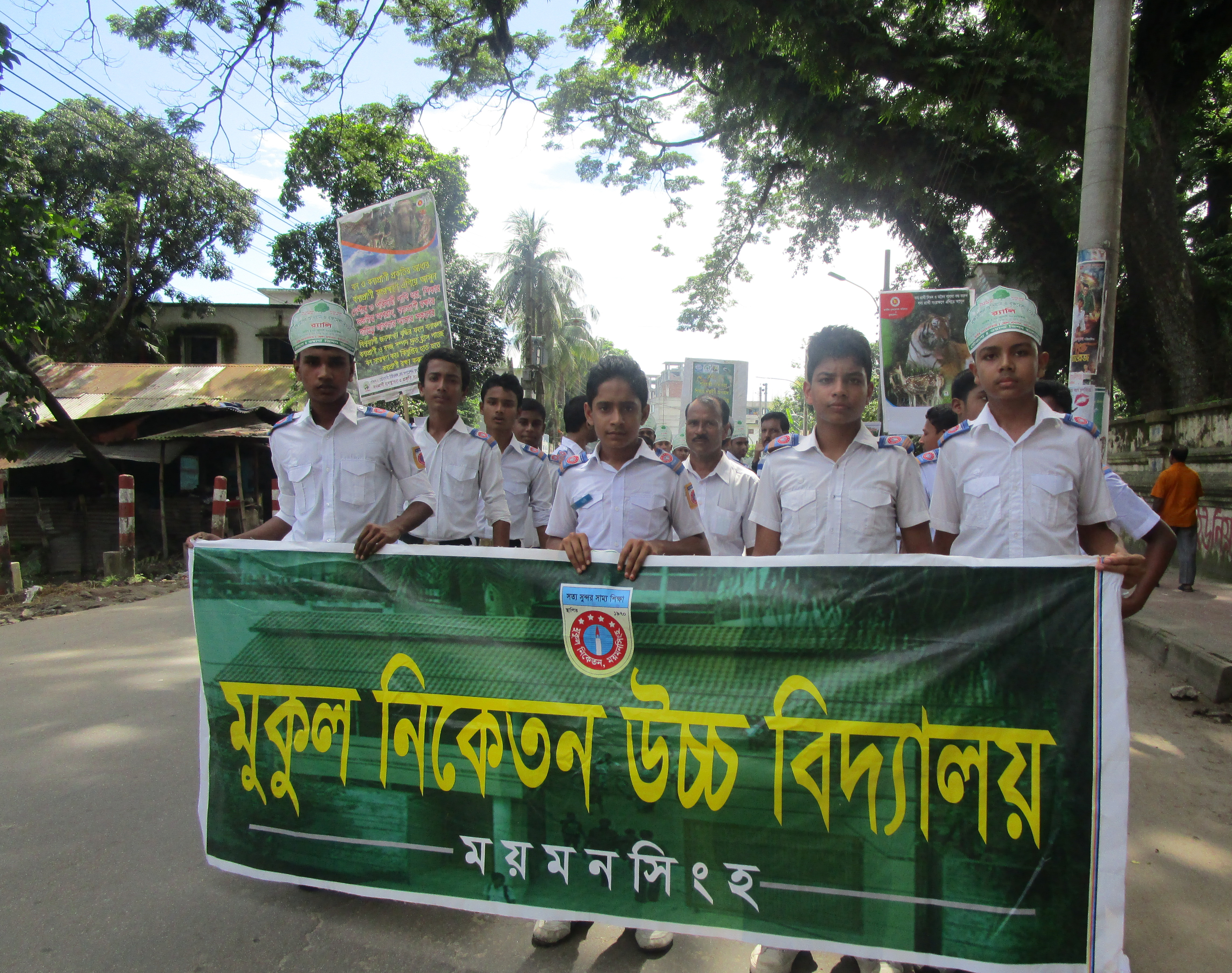 Students Rally of Mukul Niketan High School